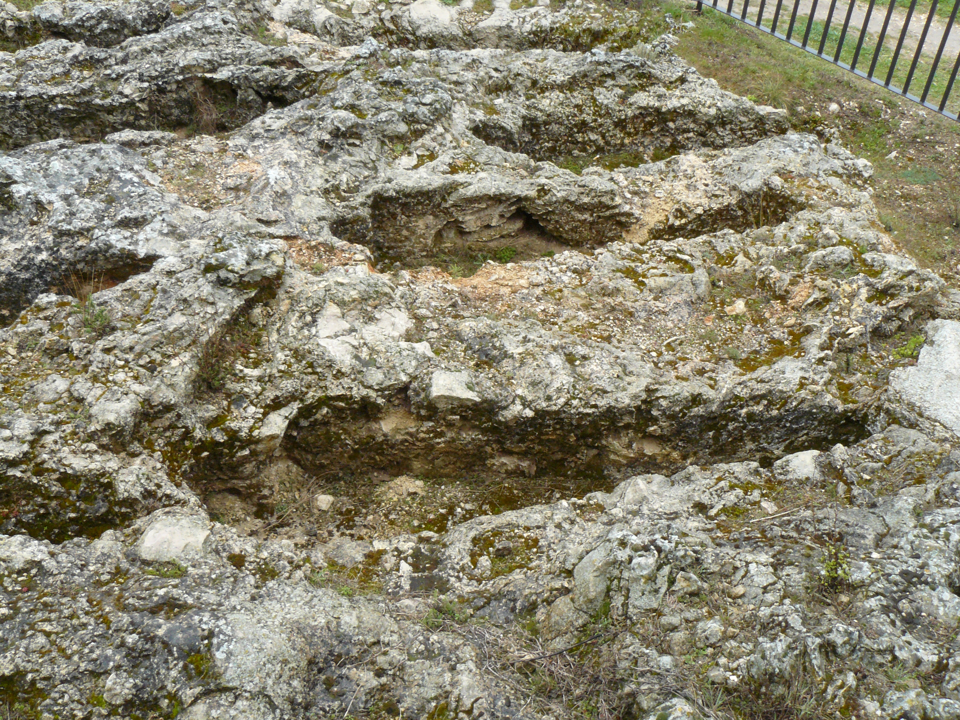 Medieval anthropomorphic or olerdolana tombs, Fuentidueña (province of Segovia, Castile and León, Spain).